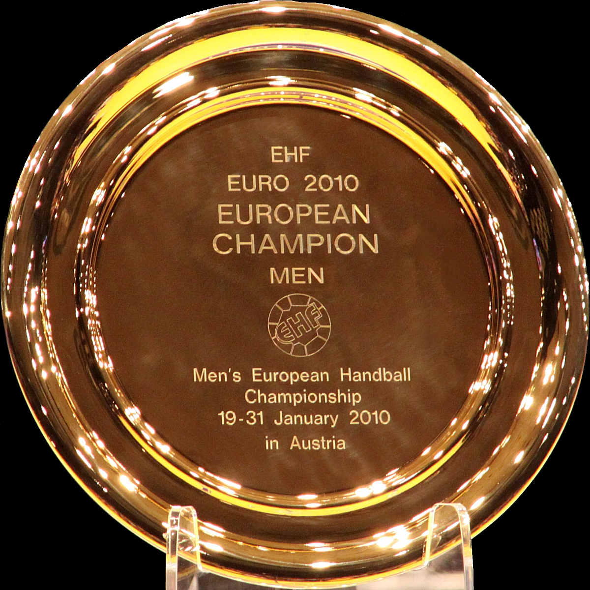 Winnertrophy of the 2010 European Men's Handball Championship